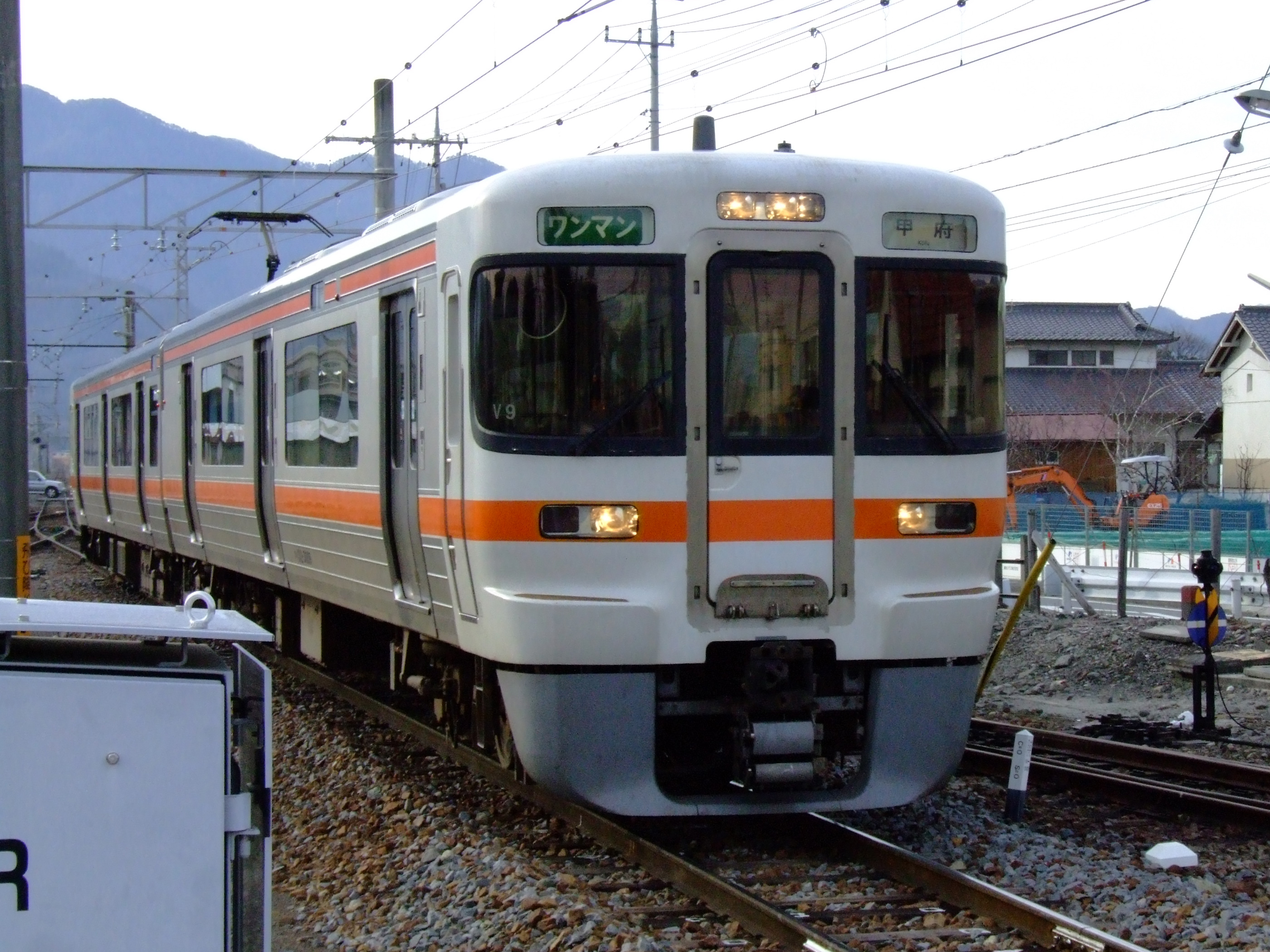 JR Central type 313